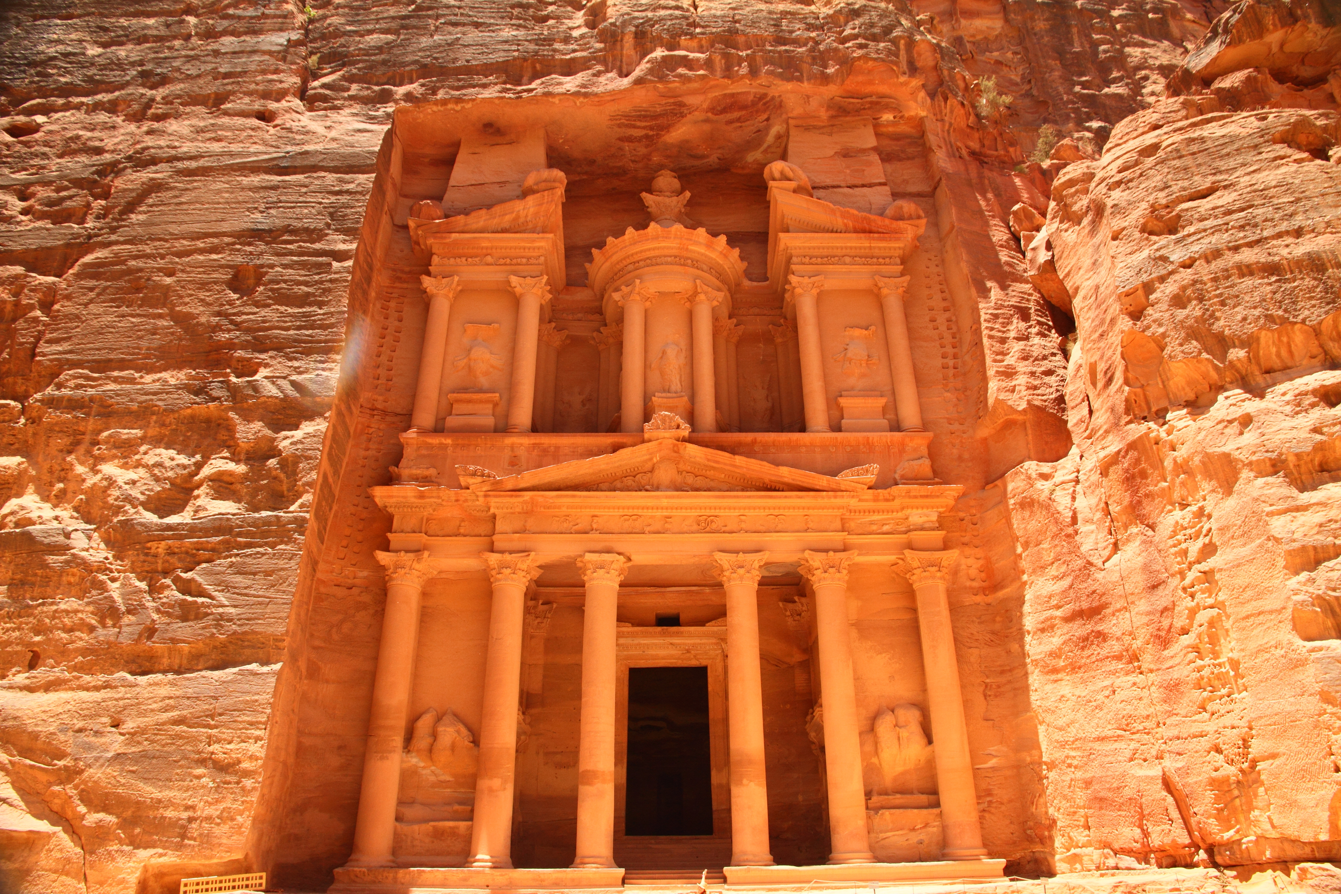 Treasury in Petra, Jordan at mid-day.